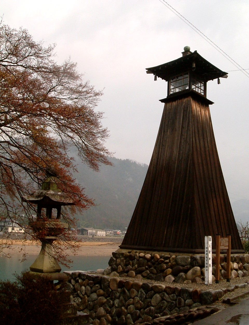 a lighthouse, Nagara river, Mino, Gifu Prefecture, Japan. 上有知湊の川湊灯台。